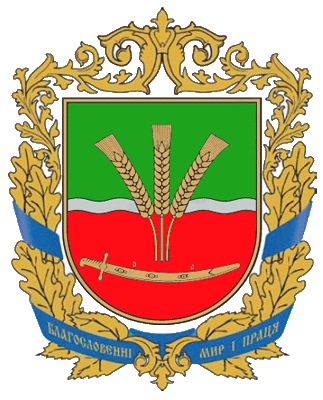 Coat of Arms Golovanivsk Raion (Kirovograd Oblast Ukraine)